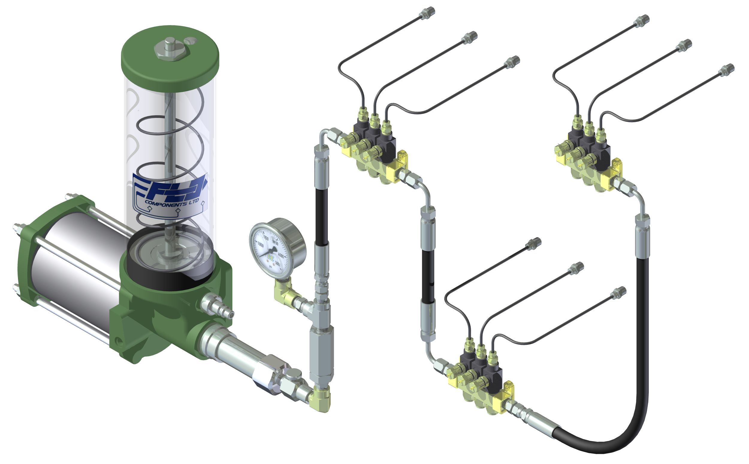 This picture shows an Single Line Parallel Automatic Lubrication System from FLO Components Ltd.